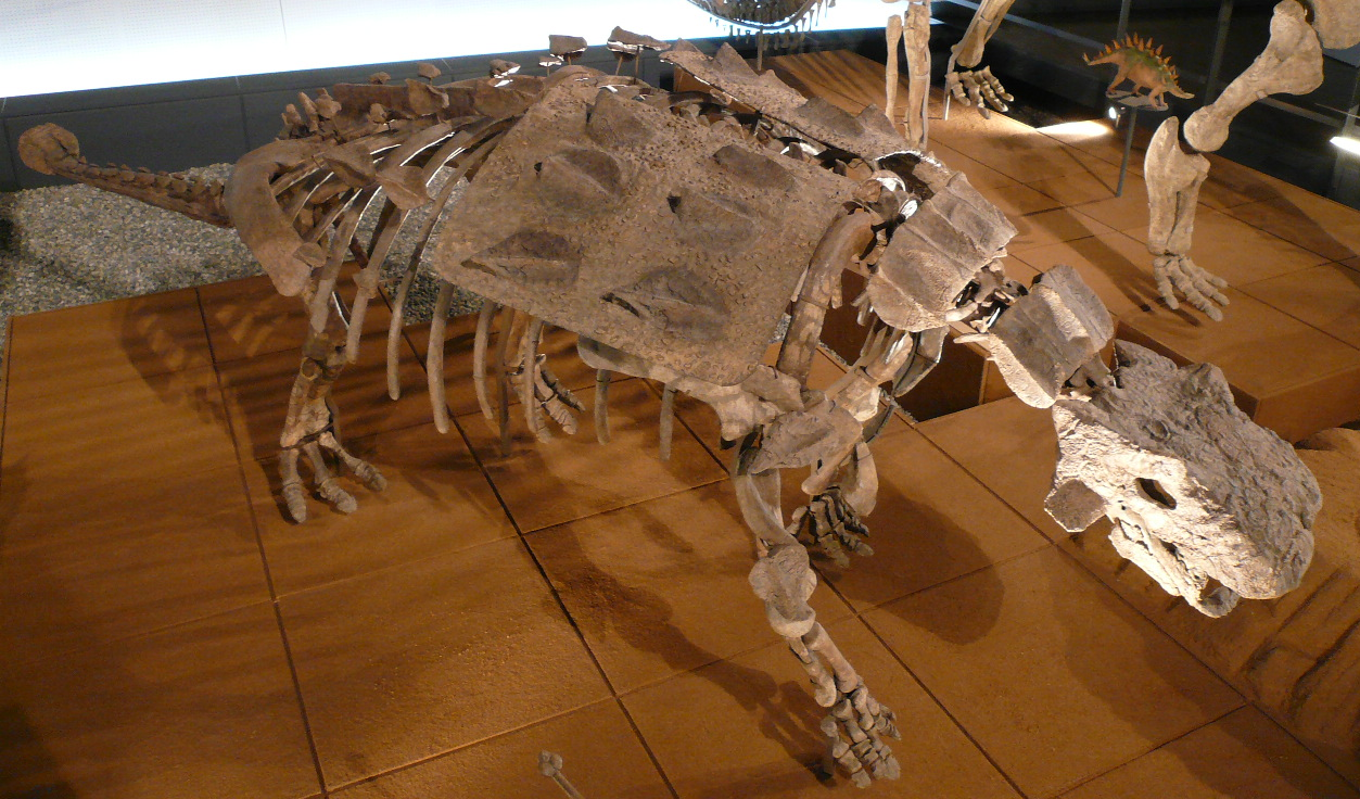 Euoplocephalus model at the Fukui Prefectural Dinosaur Museum